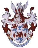 PD-old